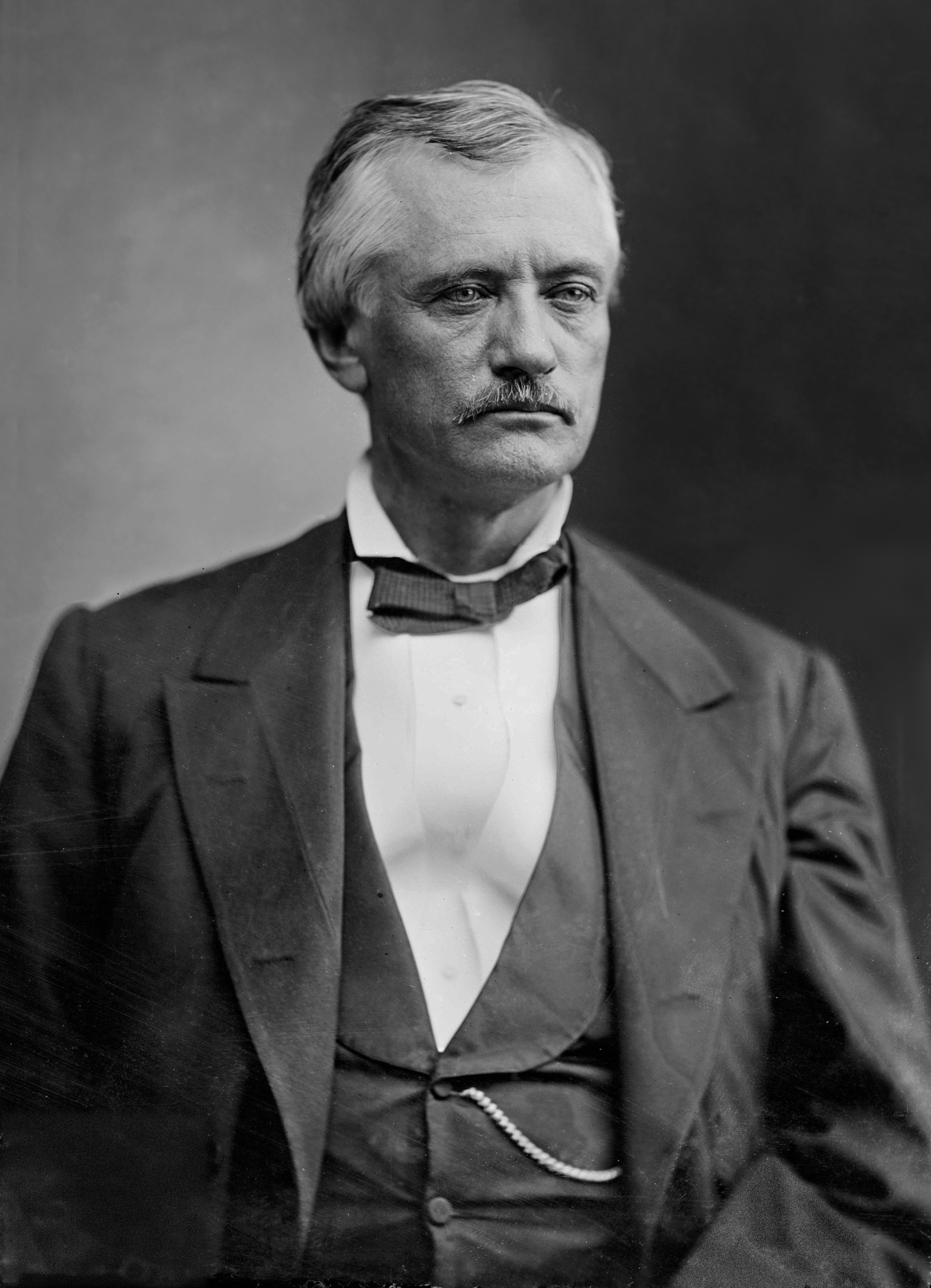 John Tyler Morgan. Library of Congress description: "Morgan, Hon. John T. of ALA".